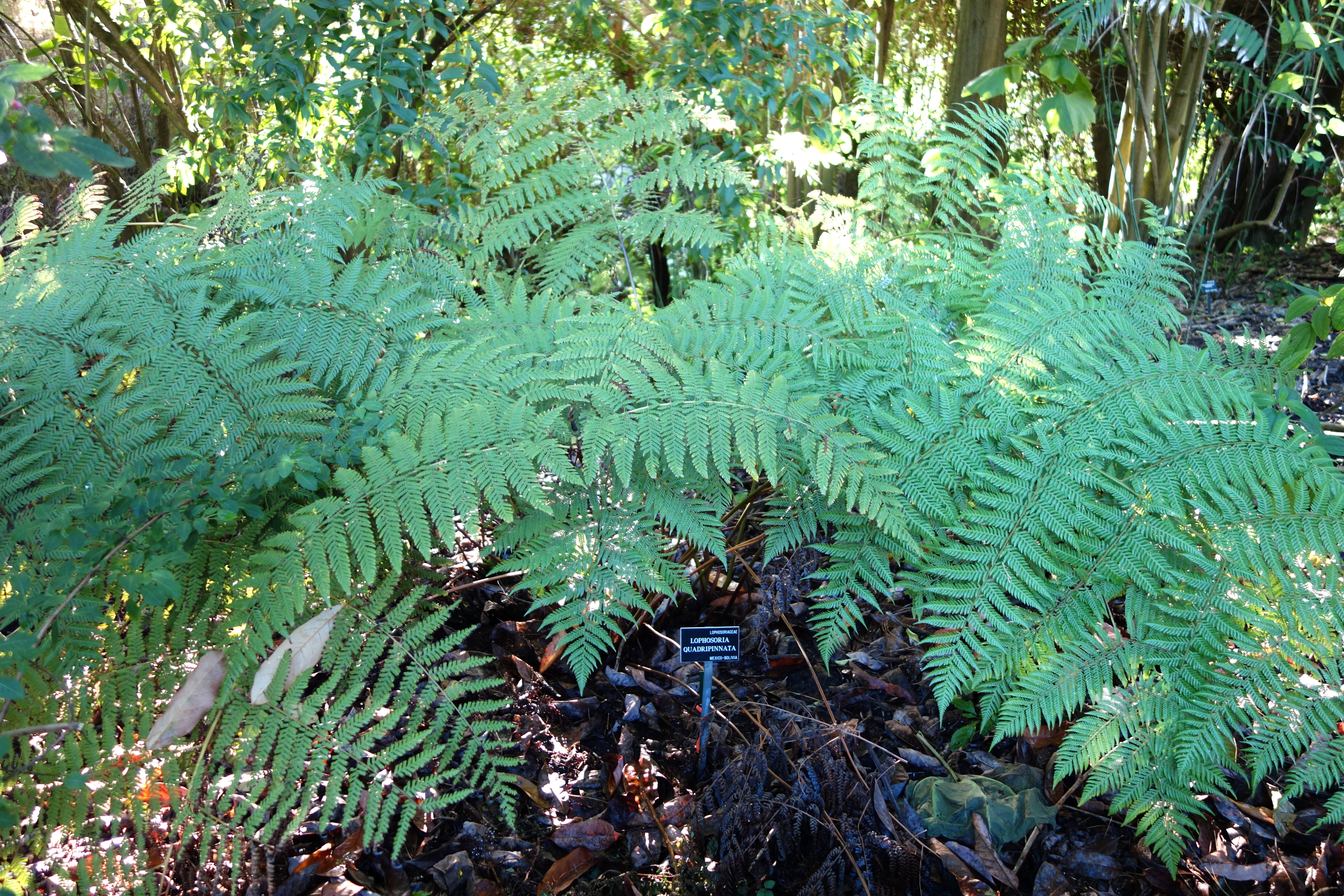 Botanical specimen in the San Francisco Botanical Garden, San Francisco, California, USA.